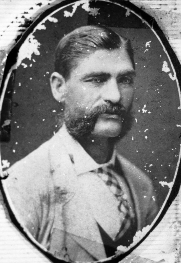 Patrick McCallum was the driver on the mail run in the Nanango district. He was an early settler of Nanango, Queensland having been born in Botany, New South Wales in1841. He was held up by the bushranger, Wild Scotsman whilst on his mail runs. He died in Nanango in 1919. (Description supplied with photograph.).